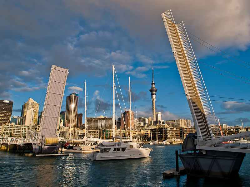 A lifted pedestrian bridge in Wynyard Quarter, Auckland. New bridge is a part of revitalised waterfront, full of pubs and restaurants.